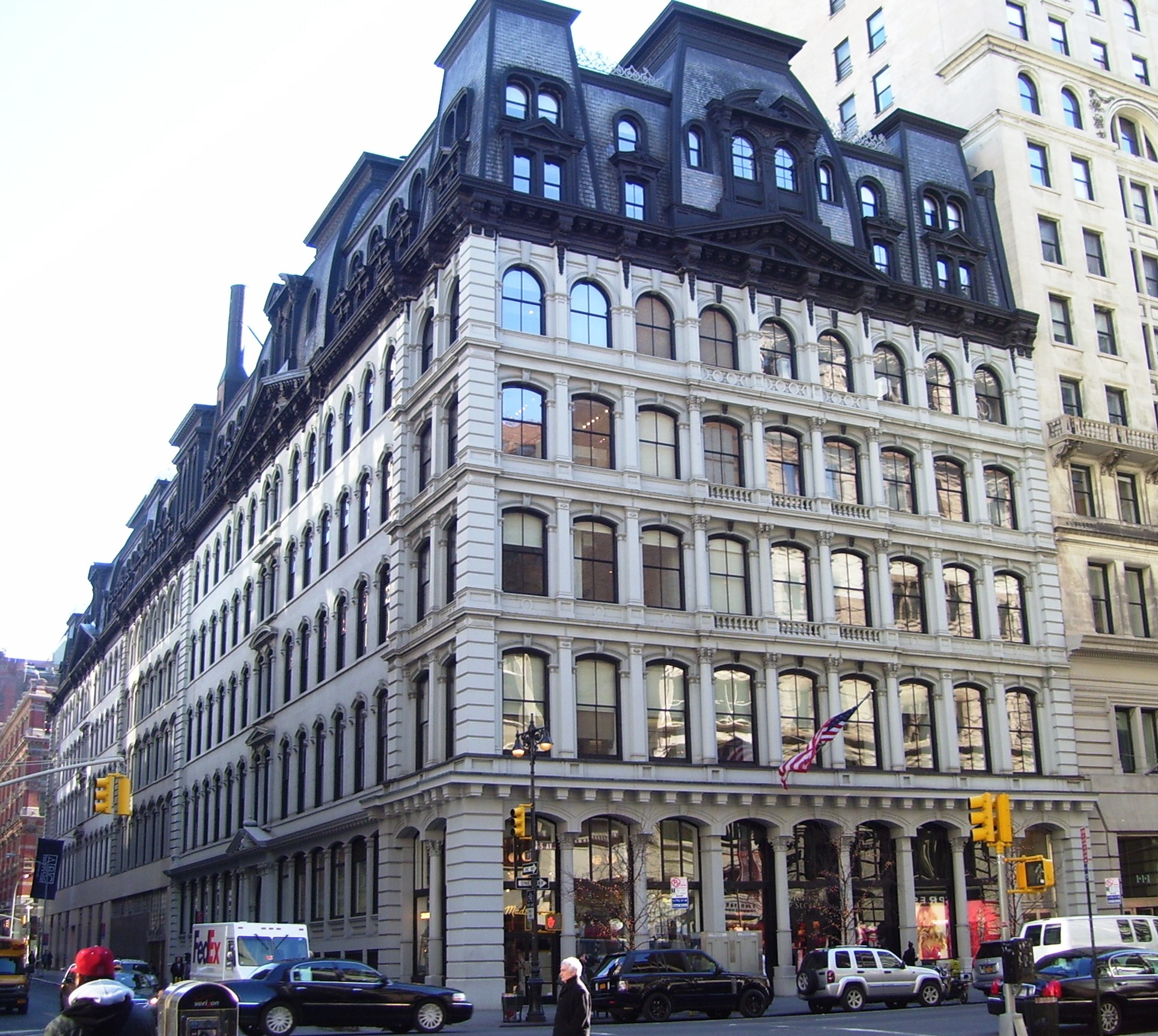 115 Fifth Avenue at 19th Street in the Flatiron District of Manhattan, New York City lies within the Ladies Miles Historic District. The building takes up the entire block of 19th Street to Broadway, where its address is 881-887 Broadway. Originally built as the Arnold Constable Dry Goods Store in 1868-1869 and extended in 1873 and 1877, the building was designed by Griffith Thomas. The Broadway facade is marble, while the Fifth Avenue facade, seen here, is cast iron. The building features a 2-story mansard roof, and is currently used on the Broadway side by ABC Carpets, and on the Fifth Avenue side by a number of retailers, including Victoria's Secret.